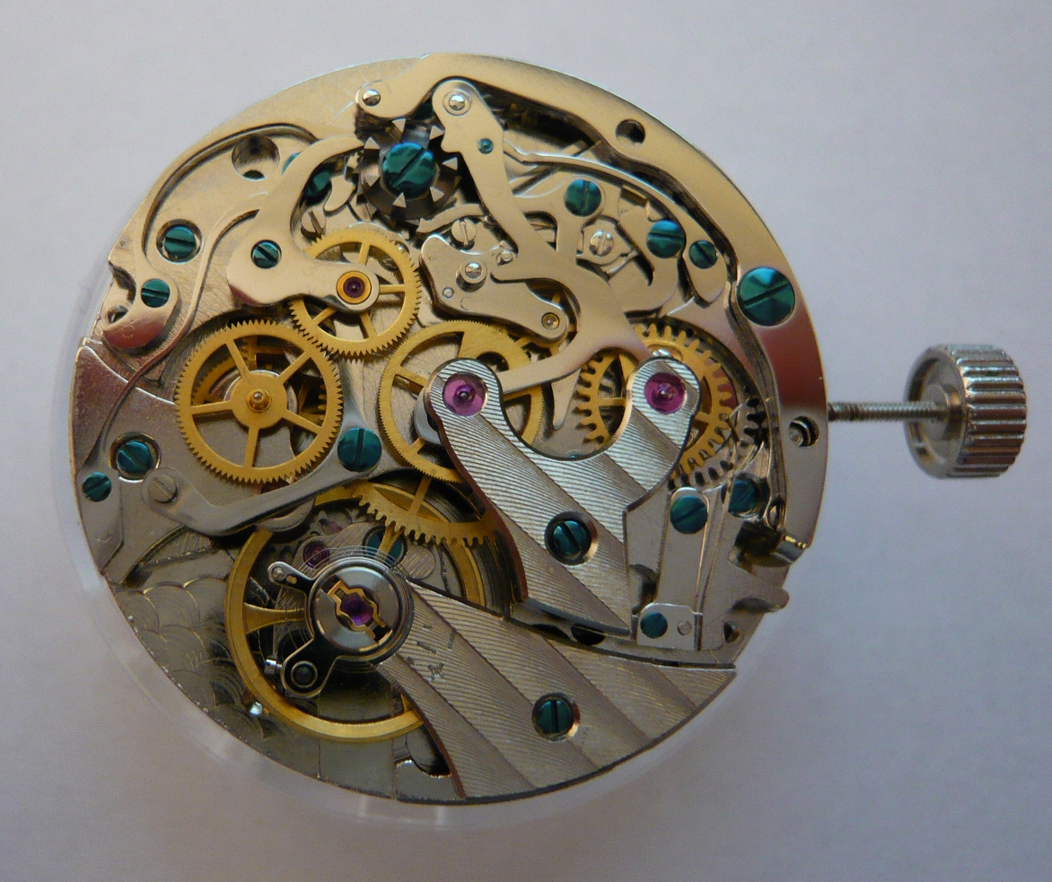 View of a Tianjin Seagull ST19 chronograph movement. This movement employs a column wheel.